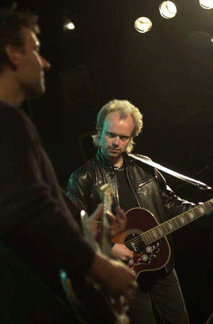 Svante Karlsson live in Halmstad 2000